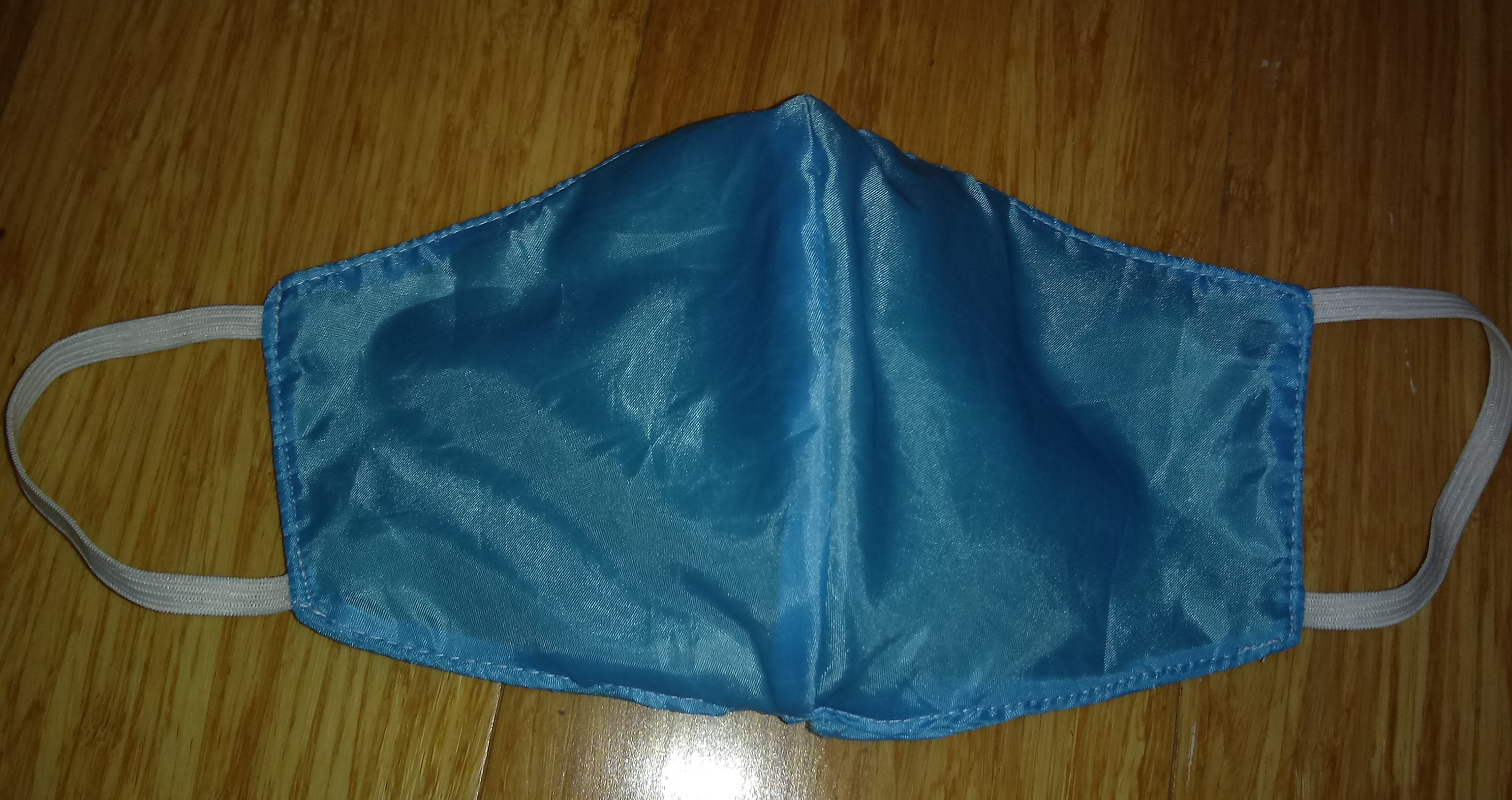 A polyester-made facial mask based on physician Molly Dorfman, MD's mask pattern, found in a JoAnn Fabrics & Crafts stores' free mask making kit. Jo-Ann Instructions to make this style of facial mask can also be found on Ace Camp Travel Company Free Sewing